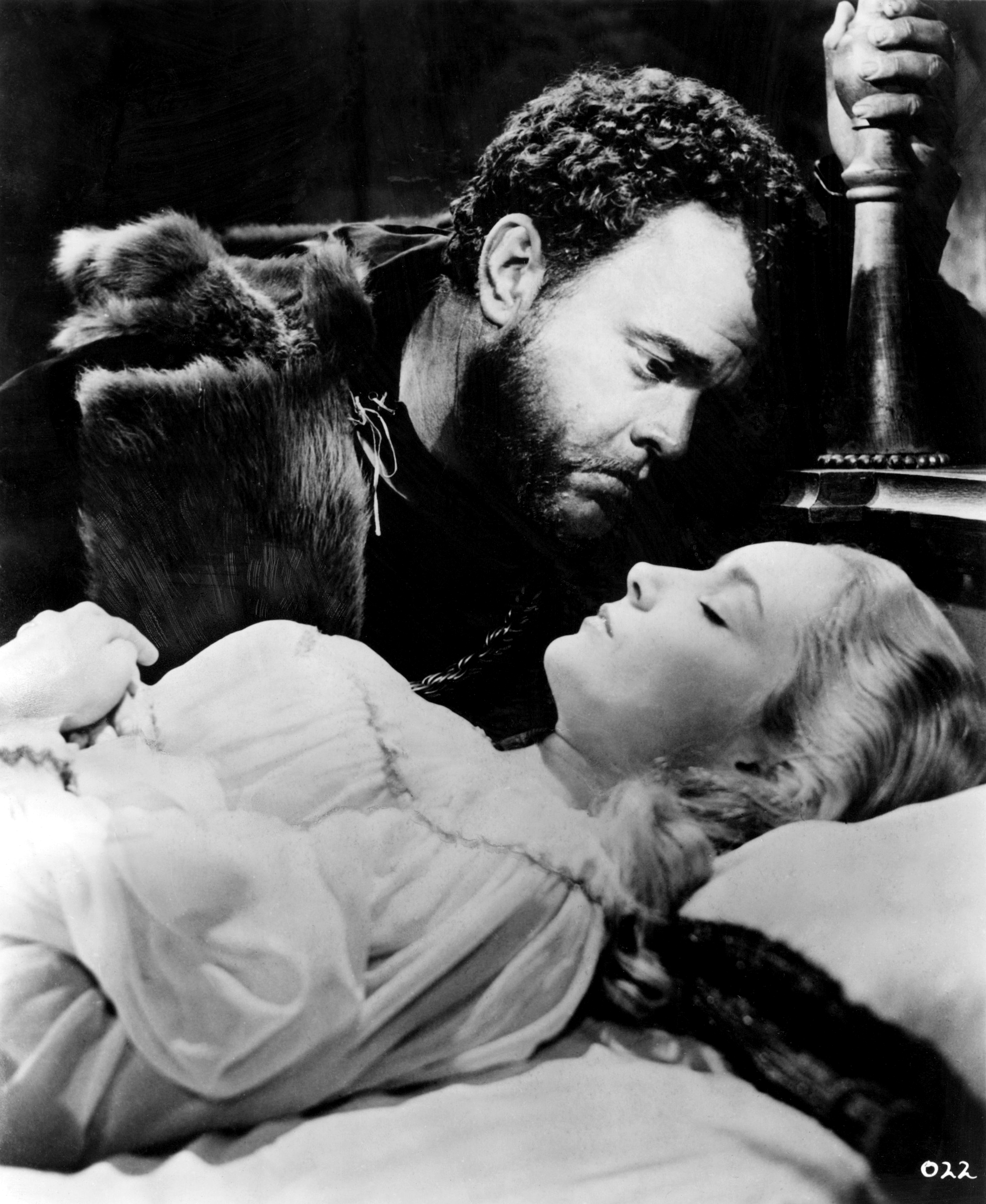 Promotional photograph of Orson Welles and Suzanne Cloutier in Othello